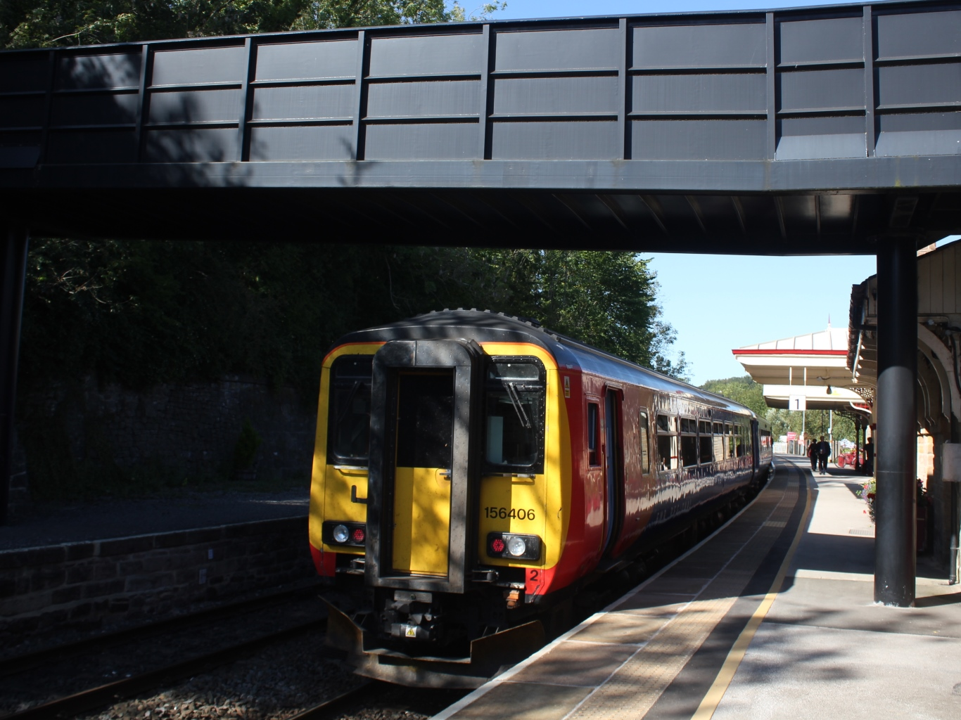 East Midlands Railway's 156406 is at Matlock and about to return to Newark.